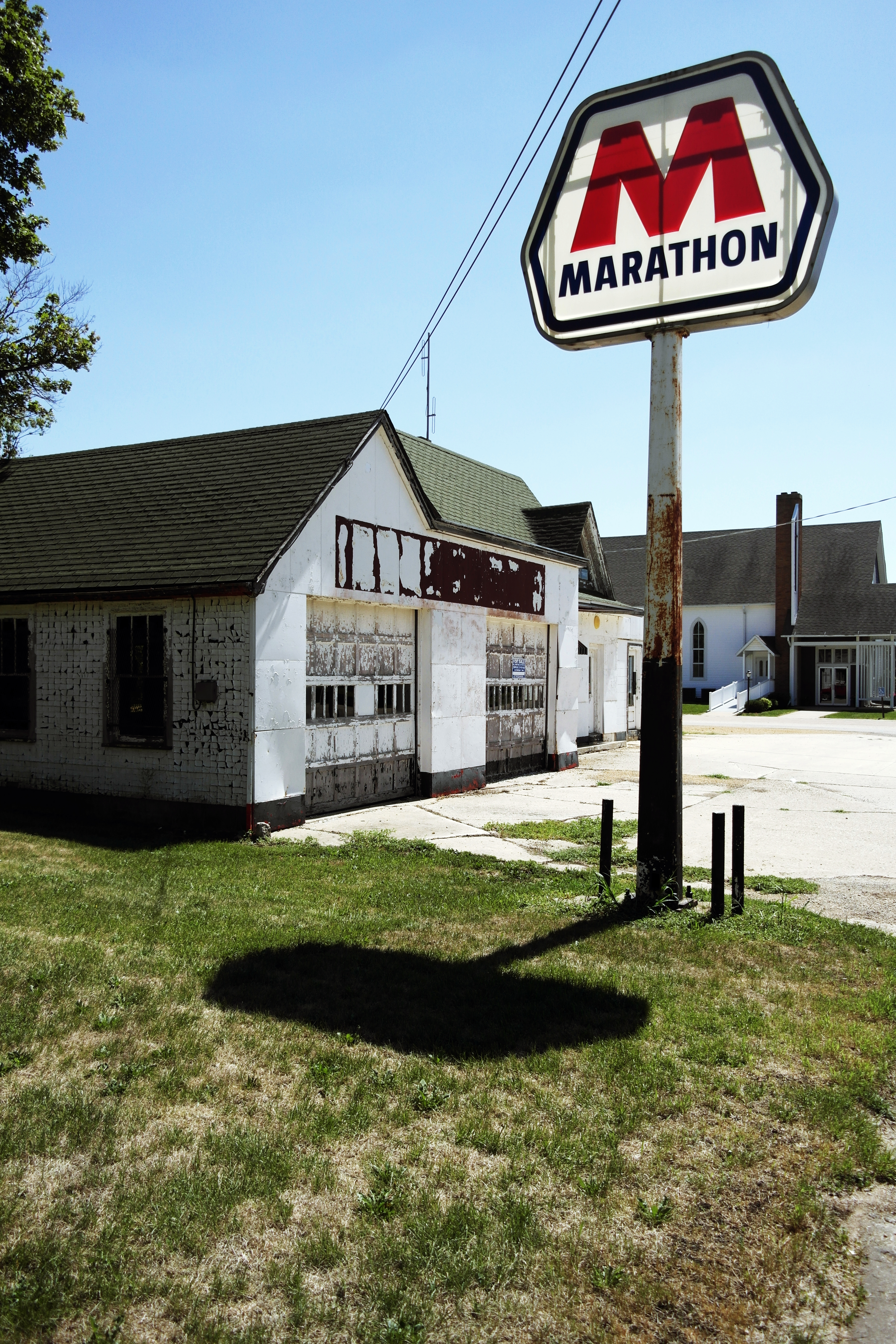 Old Marathon Filling Station, Ohio, Illinois (northeast corner S. Main St. (IL 26) and E. Church St.)